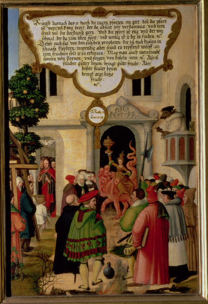 'Beware of false prophets; they come to you with the garb of sheep but at heart they are ravenous wolves' (Matthew 7 v.15, Luke 6 v.13), illustration of Christ's teaching, section of wing panel from the Mompelgarter Altarpiece (panel) (see also 72465-79)